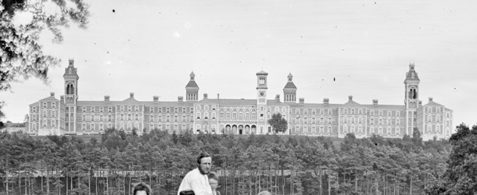 St.Sean's Hospital